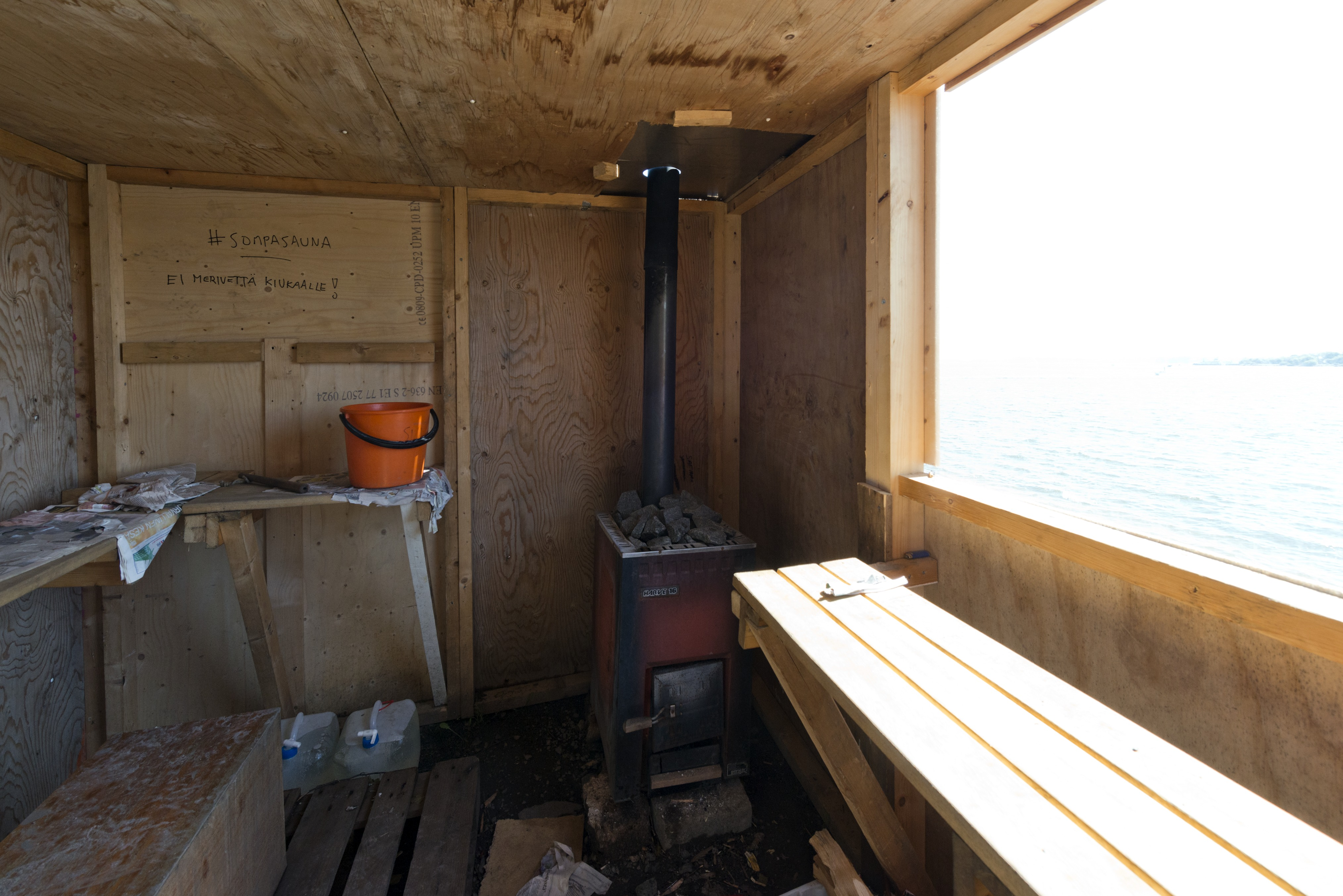 Sompasauna from the inside 2013